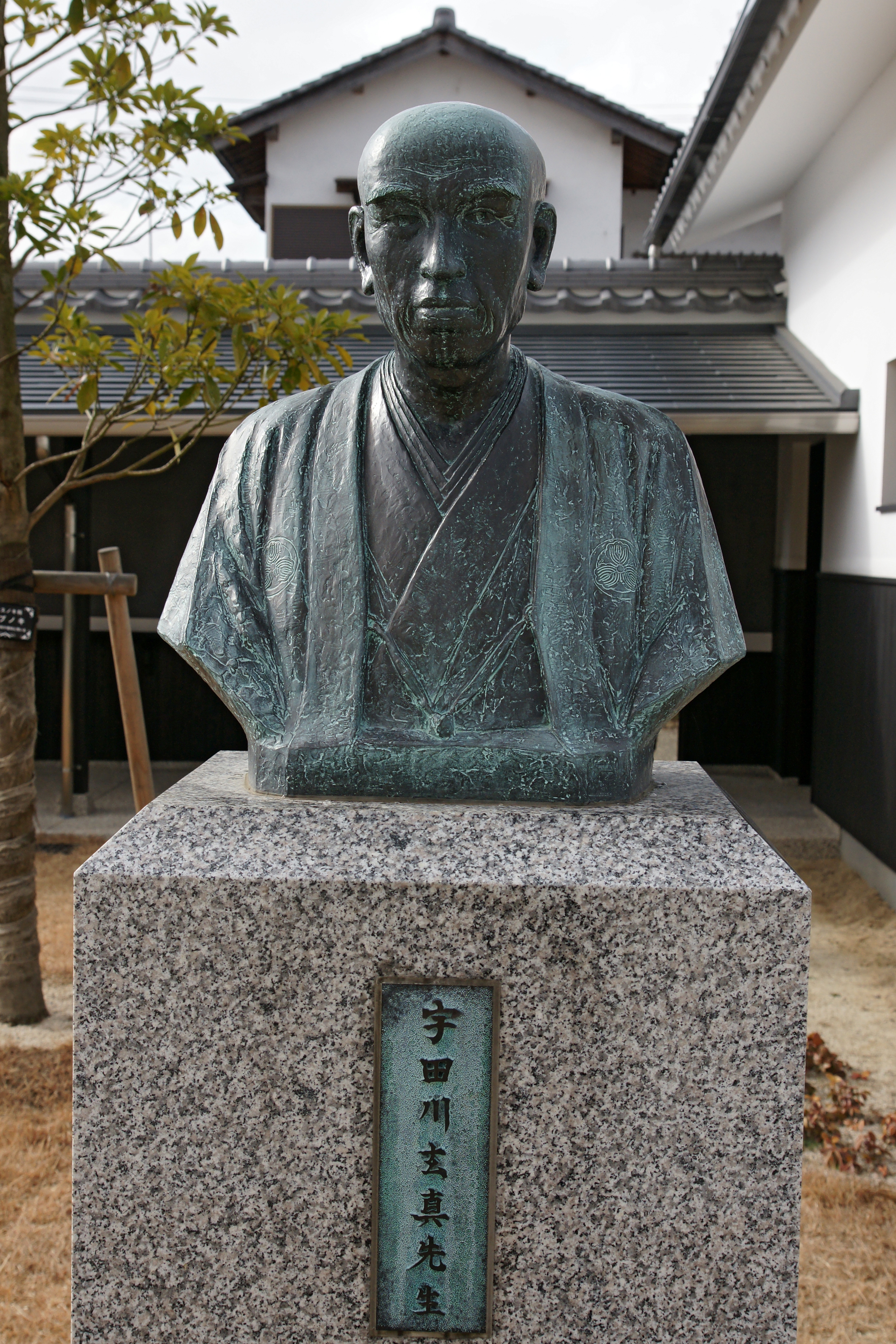 Tsuyama Archives of Western Learning in Tsuyama, Okayama prefecture, Japan.